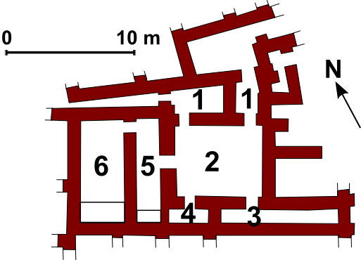 Ur, Old Babylonian house from the AH site, n.1 Old Street in Woolley's classification. May have been the residence of Ea-nasir, merchant involved in trade with Dilmun (Bahrain), whose archives have been found in the house, especially in the Room 6. Functions of the rooms are hypothetical, probably they may be multi-functionnal. 1. entrances ; 2. main court ; 3. room leading to stairs (the house may have one storey) ; 4. lavatory ; 5. reception or residential room ; 6. chapel, or other residential room. Adapted from L. Woolley et M. Mallowan, The Old Babylonian Period, Ur Excavations VII, London and Philadelphia, 1976.